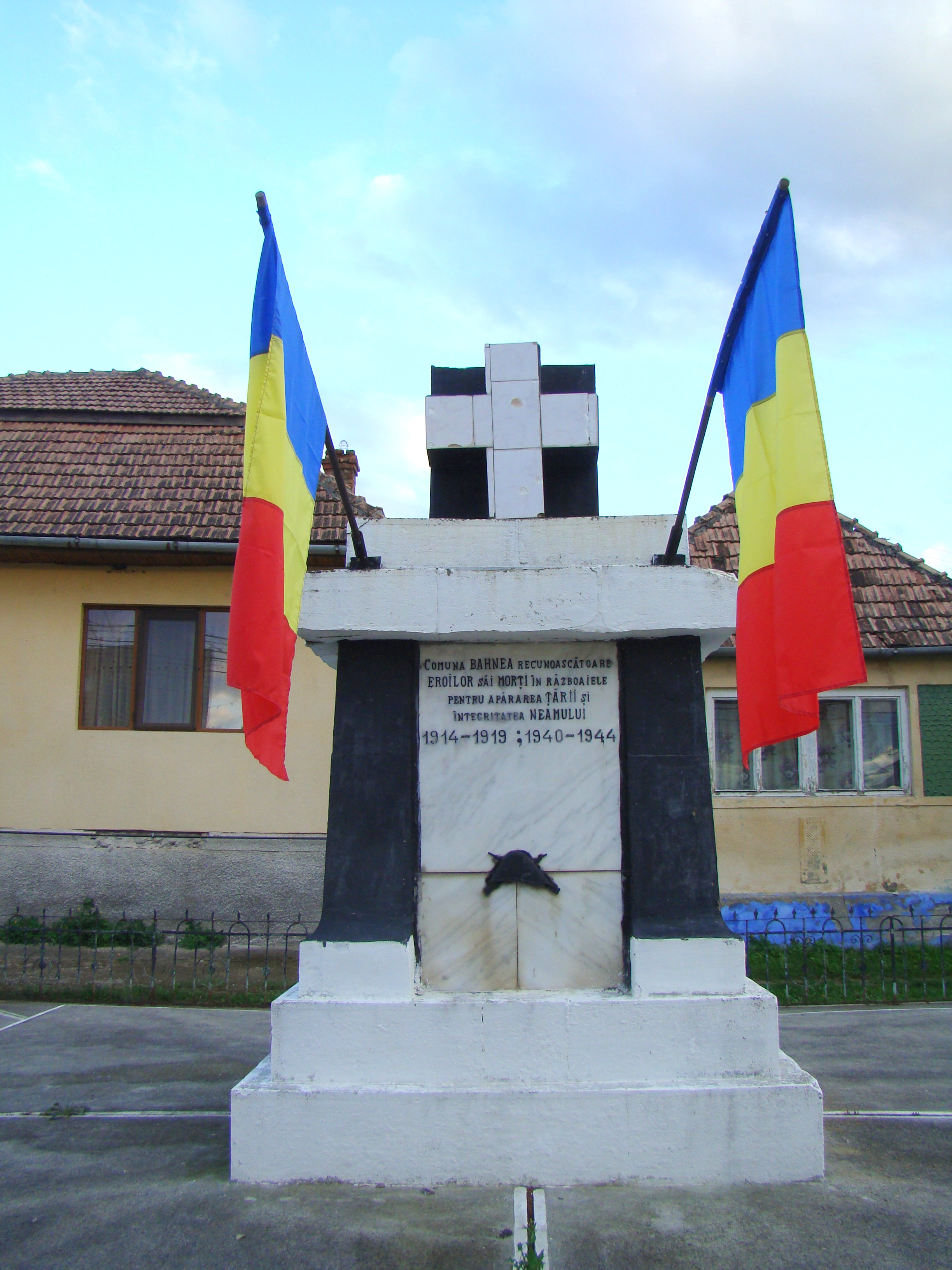 World War memorial in Bahnea, Mureș county, Romania